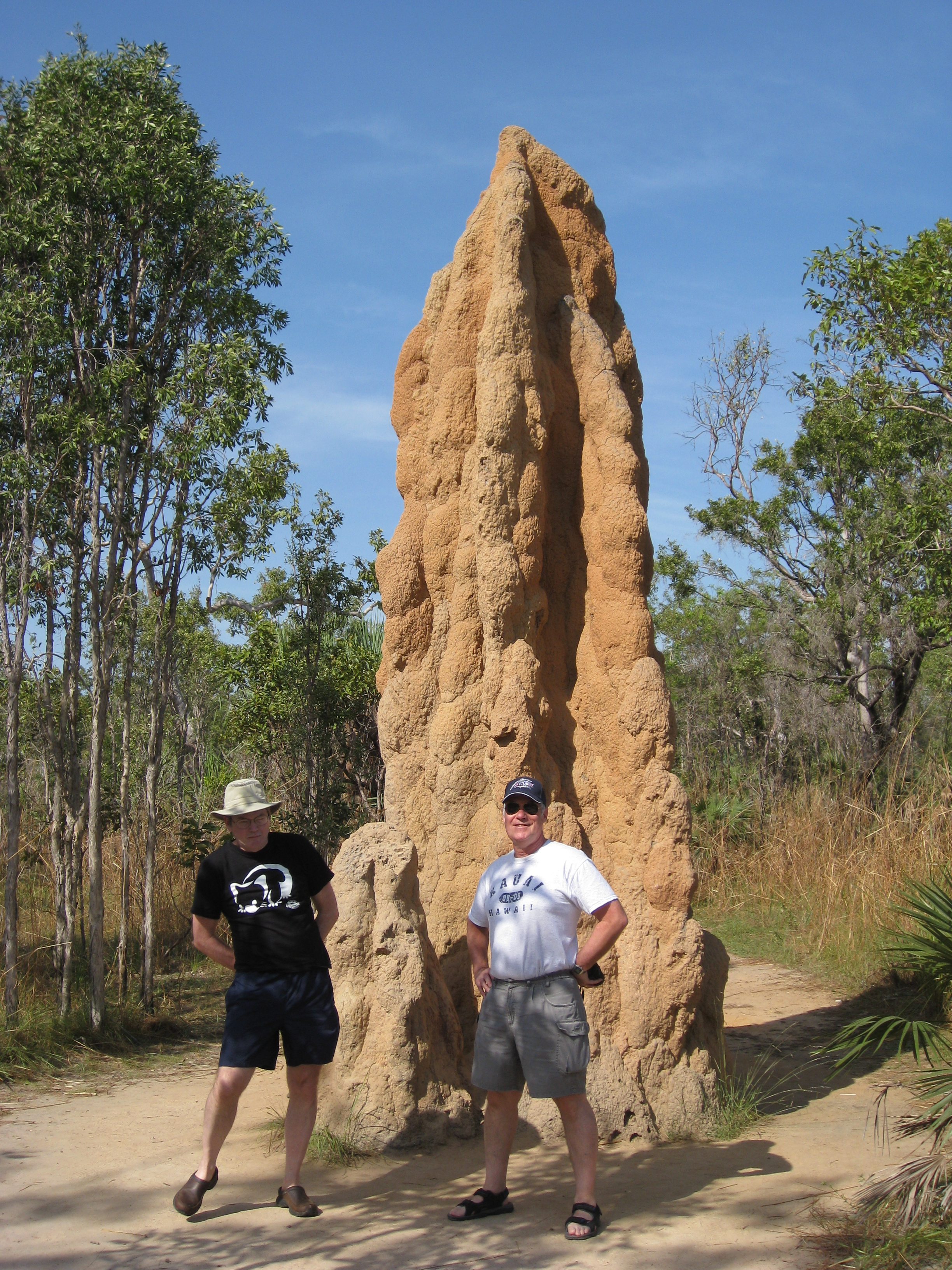 I was cringing as a wasp roughly the size of a hummingbird flew into my filed of view. These termite mounds were most impressive. From the park sign: Cathedral Termite Mound This mound is home to a colony of grass eating termites, Nasutitermes triodiae. It's about 5 meters high and could be over 50 years old. Kingdom:Animalia Phylum:Arthropoda Class:Insecta Subclass:Pterygota Infraclass:Neoptera Superorder:Dictyoptera Order:Isoptera Family: Termitidae Litchfield National Park, Northern Territory, Australia i09_0501 028